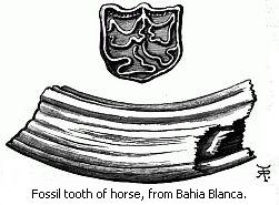 Fossil tooth of horse. From Bahia Blanca.